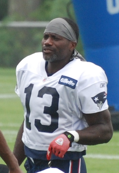 New England Patriots training camp 2009, #13 Joey Galloway